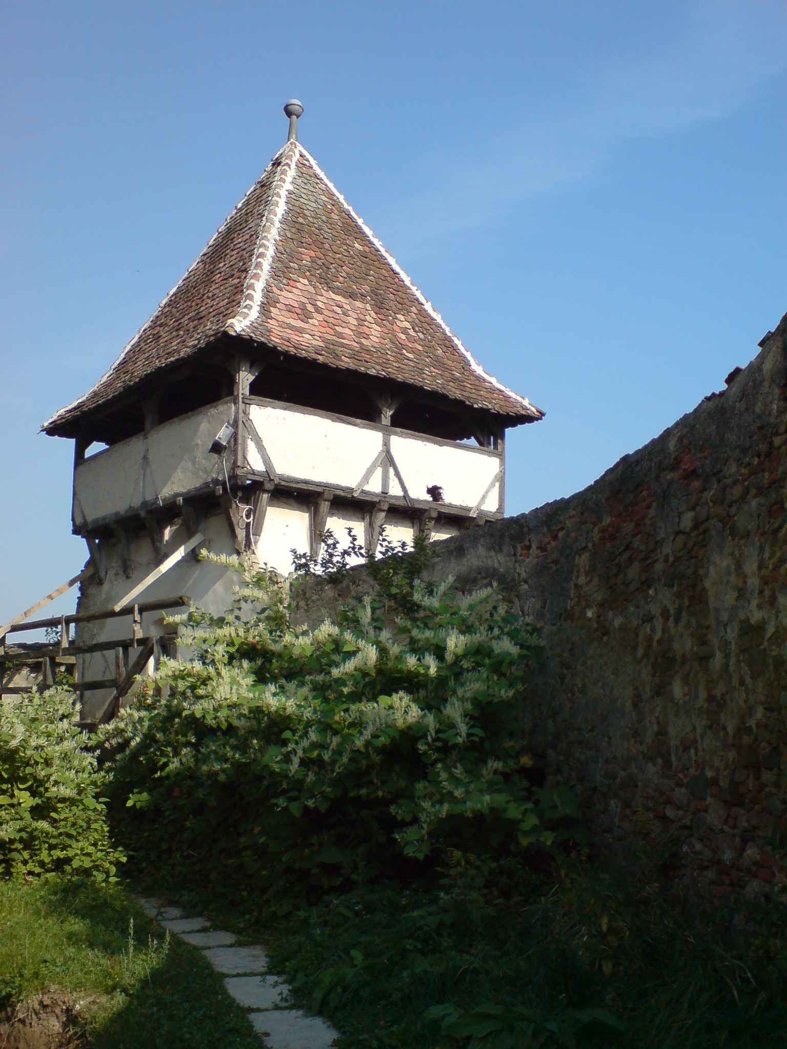 Fortress church of Iacobeni, Romania